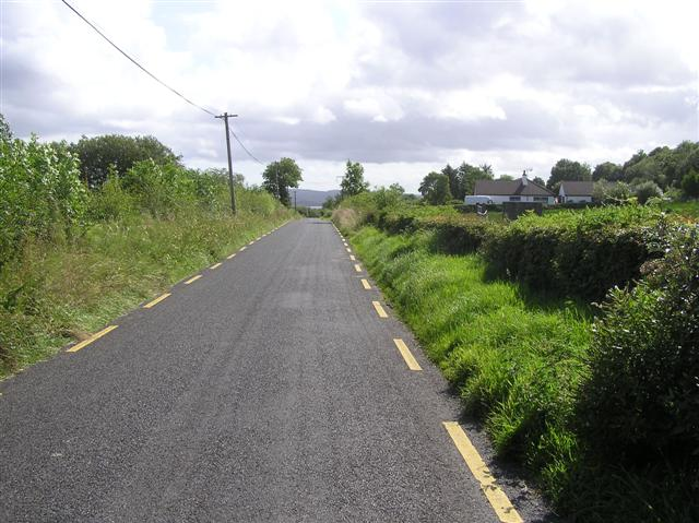 R281, Buckode Heading east to Garrison in County Fermanagh